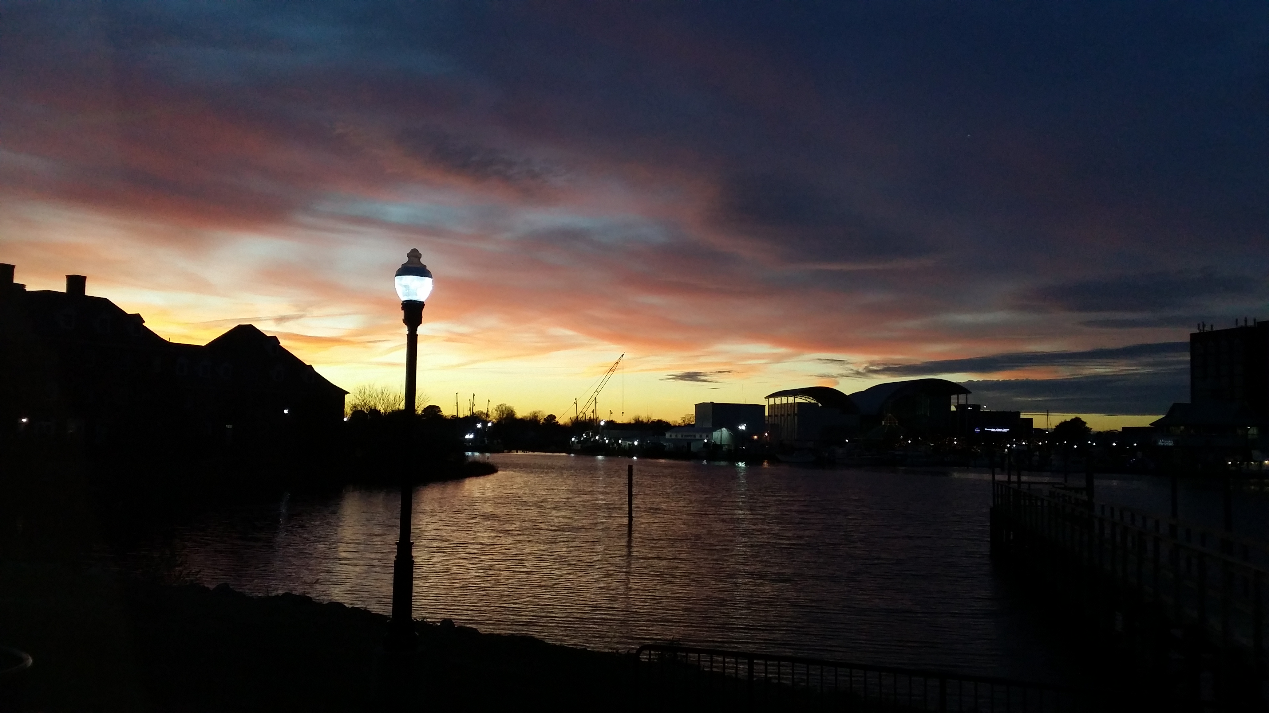 Sunset at Hampton University Cafeteria Waterfront in mid-December. We can see an estuary with beautiful reflection and a sky filled up with amazing unusual colors